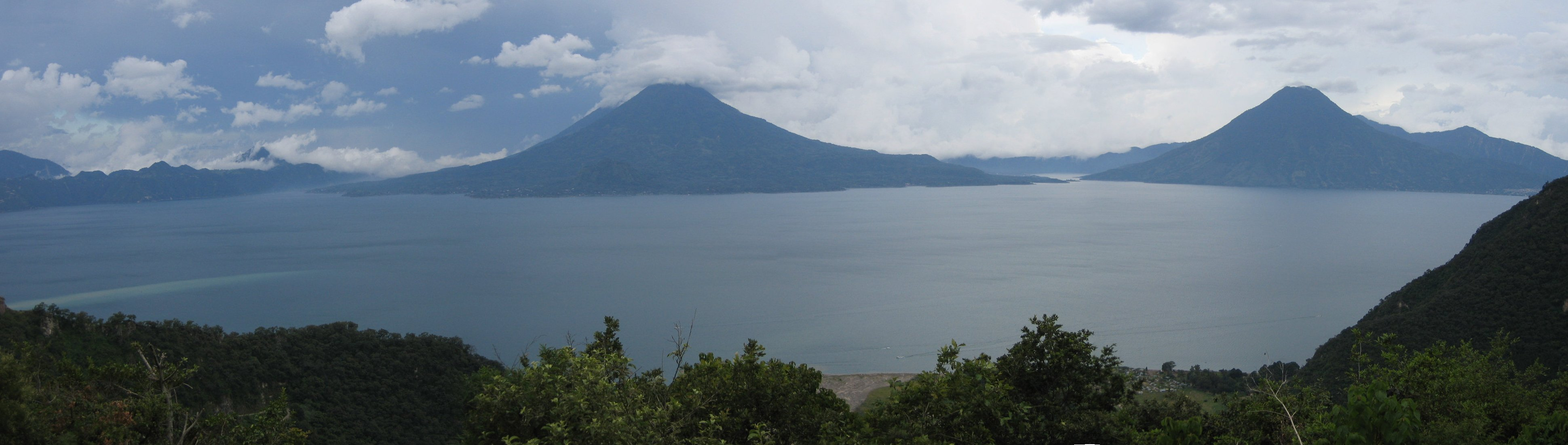 Atitlan lake (Guatemala), panoramic view, August 2006